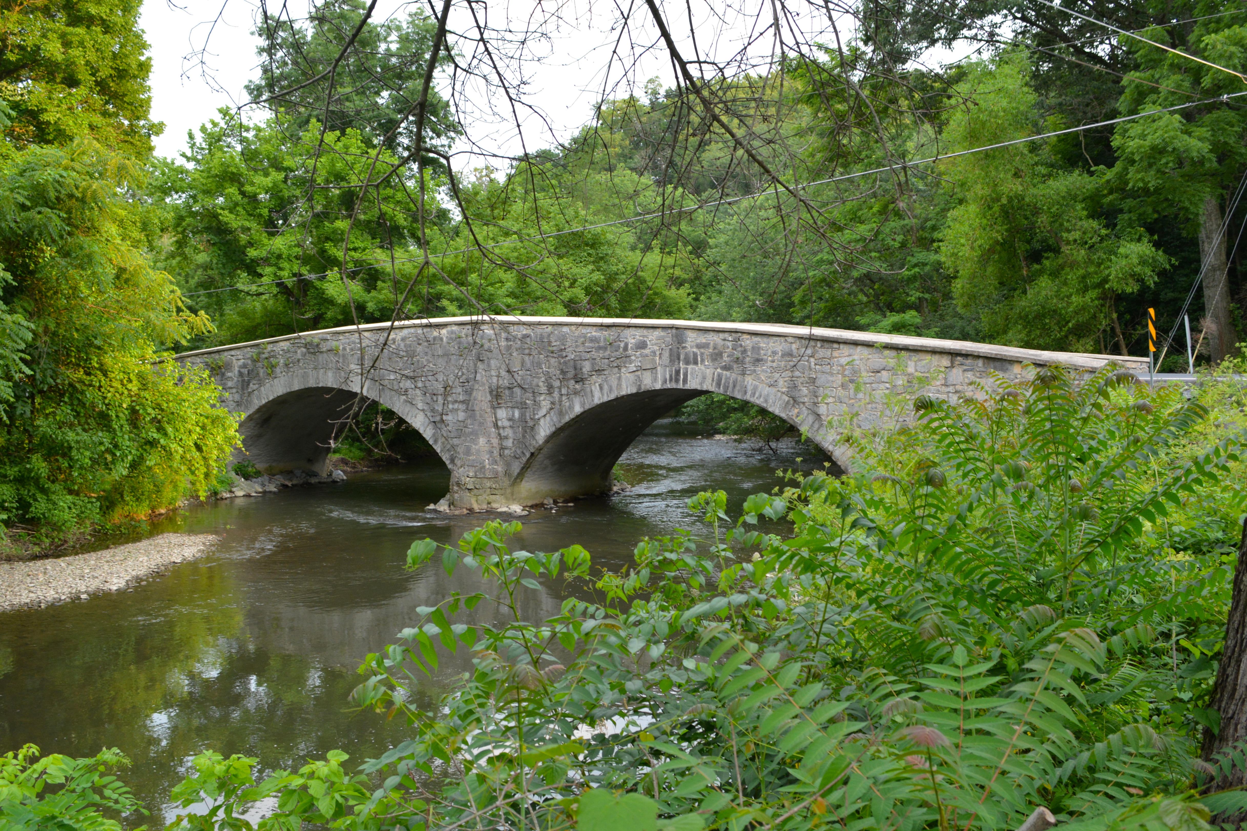 Bridge between Guilford and Hamilton Townships listed on the NRHP on June 22, 1988 (#88000776). On Legislative Route 28033 over Conococheague Creek near Social Island (Social Island Road) in Guilford and Hamilton Townships, Franklin County, Pennsylvania.